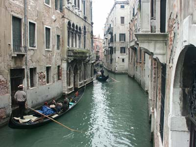 Gondola in Venice.